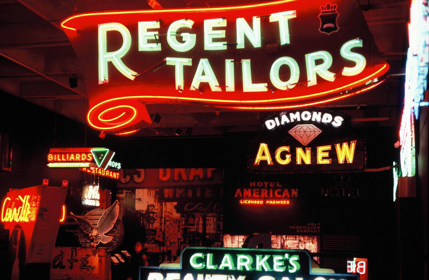 Neon Vancouver exhibit at the Museum of Vancouver